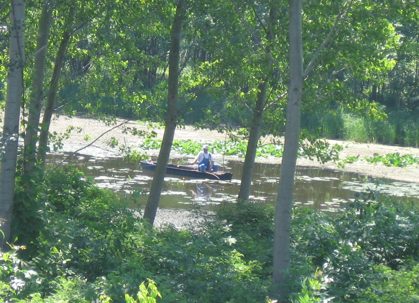 Nature park "Tikvara", Backa Palanka